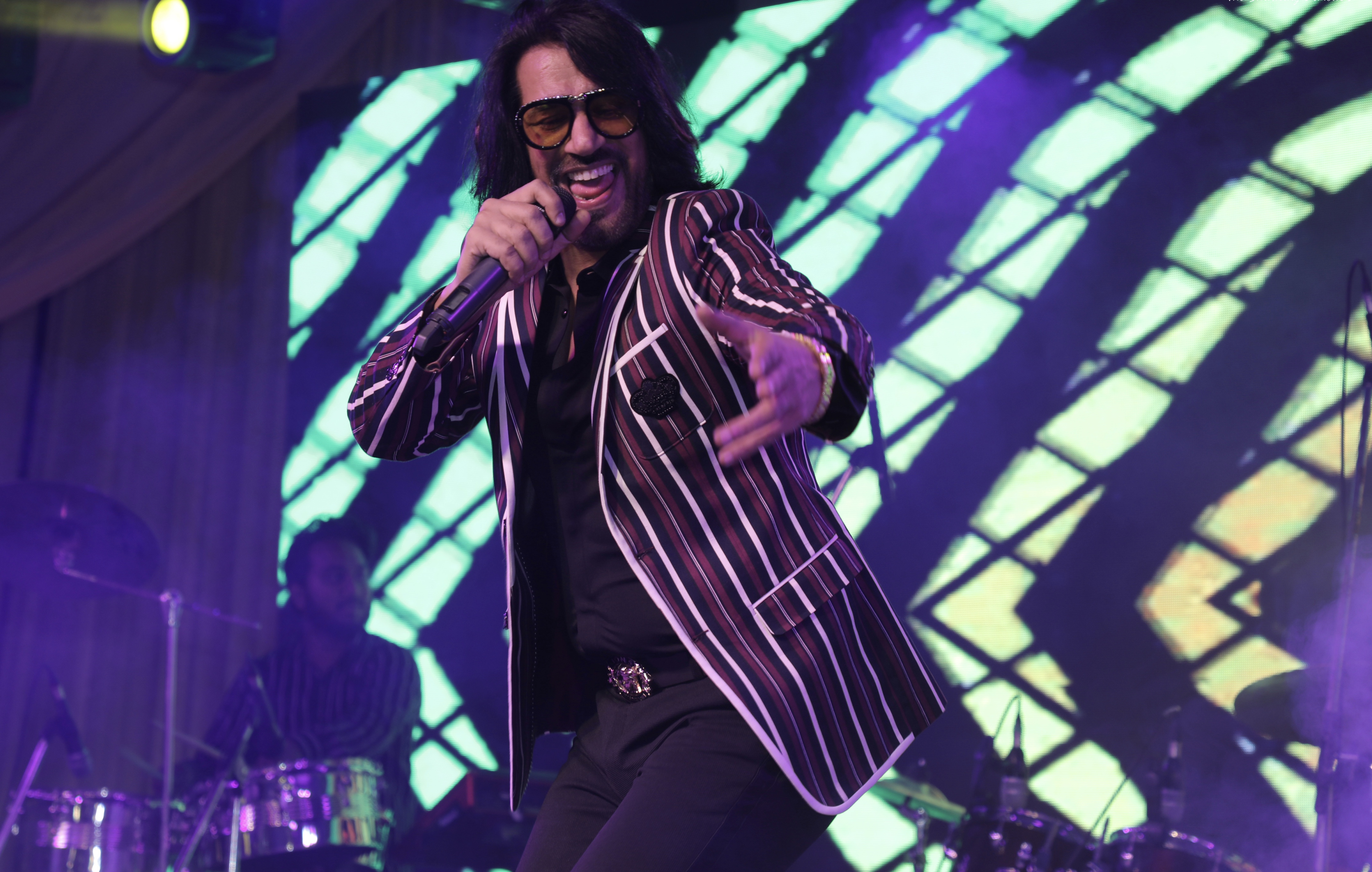 Ashok Masti live in New Delhi